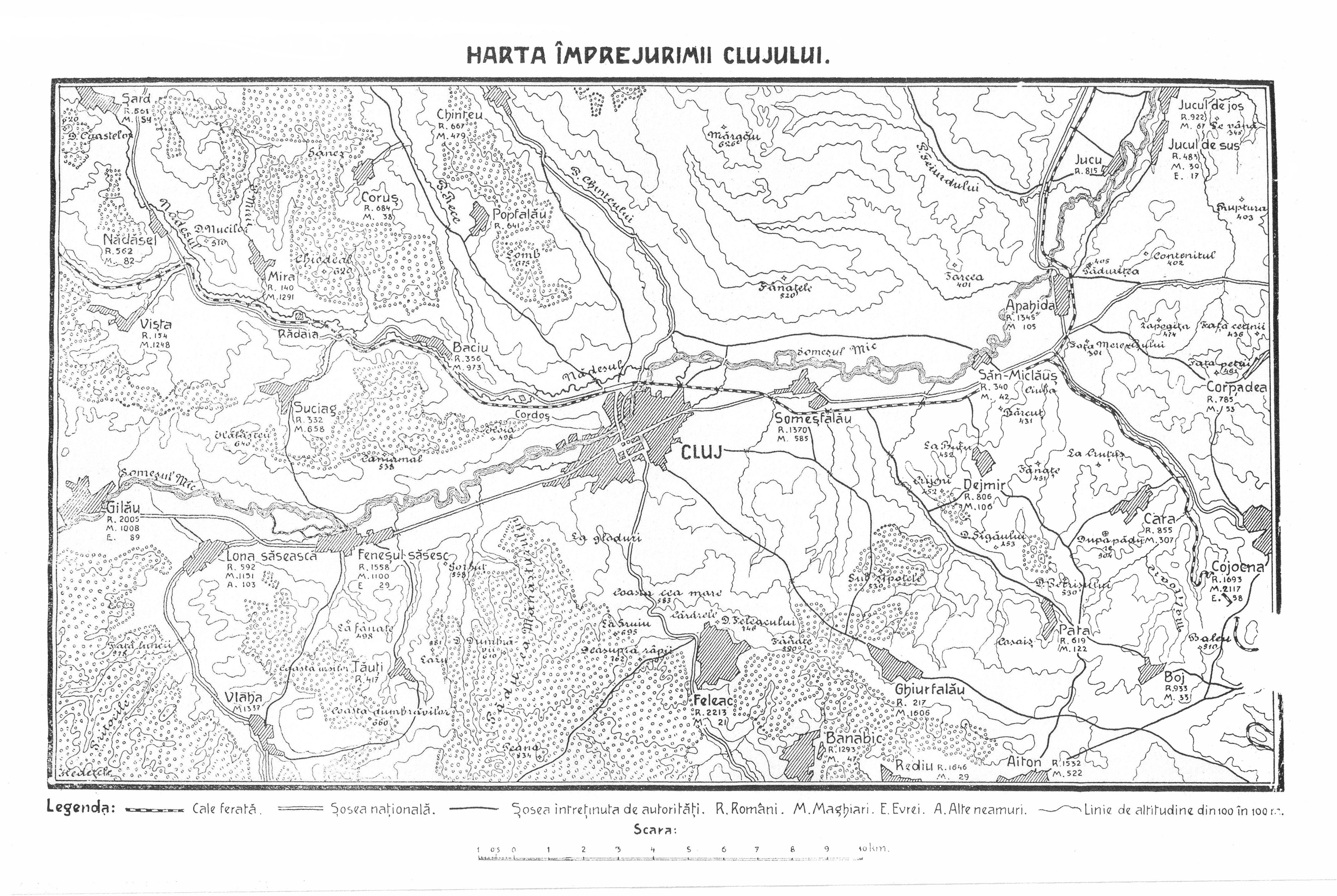 Victor Lazar, Clujul, Cultura Nationala 1923.